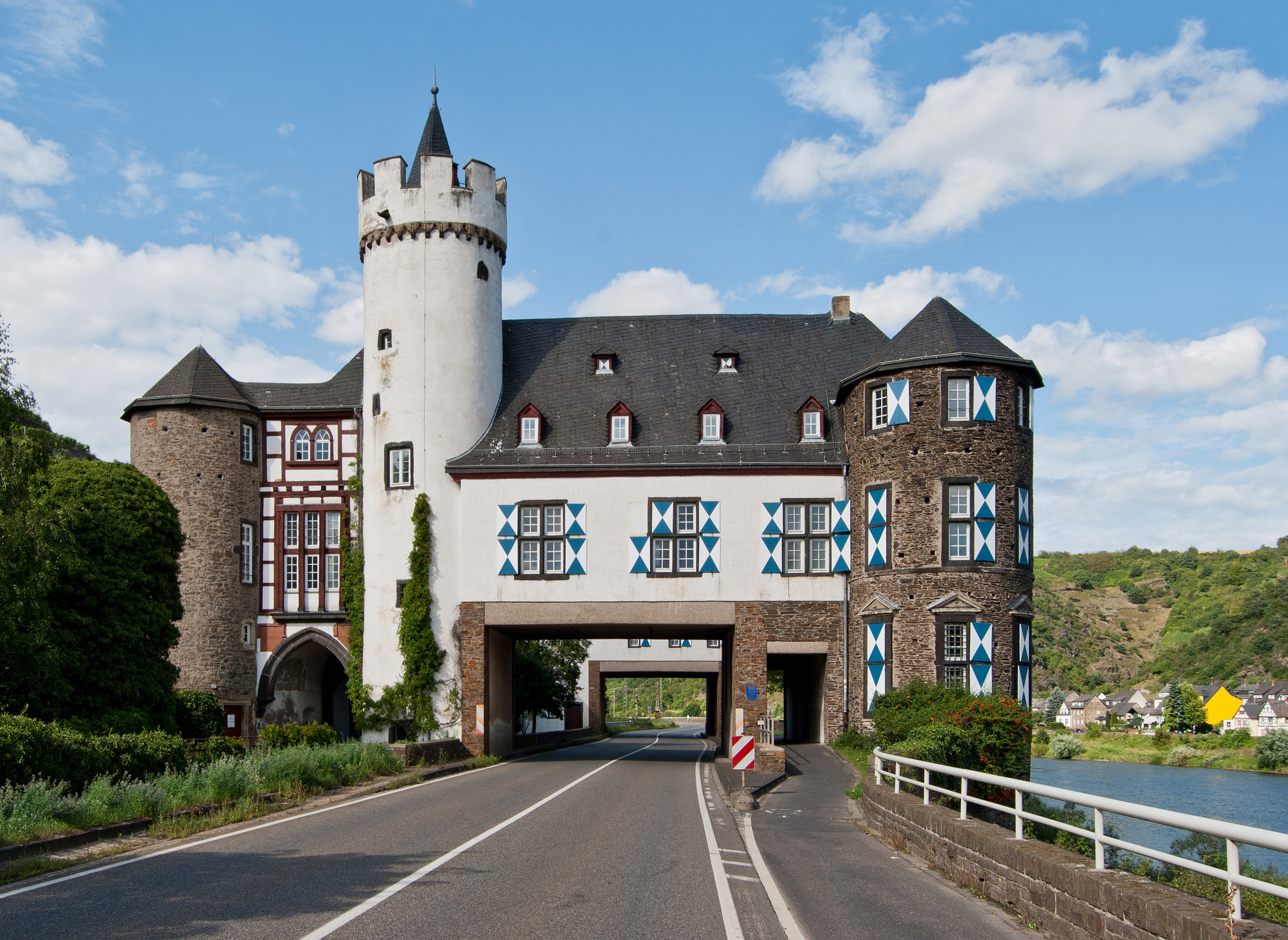 Kobern-Gondorf (Rhineland-Palatinate, Germany) – Gondorf Castle – street breach of the federal highway Bundesstraße 416 This is a photograph of an architectural monument.It is on the list of cultural monuments of Kobern-Gondorf This photograph was taken with a Nikon D3000